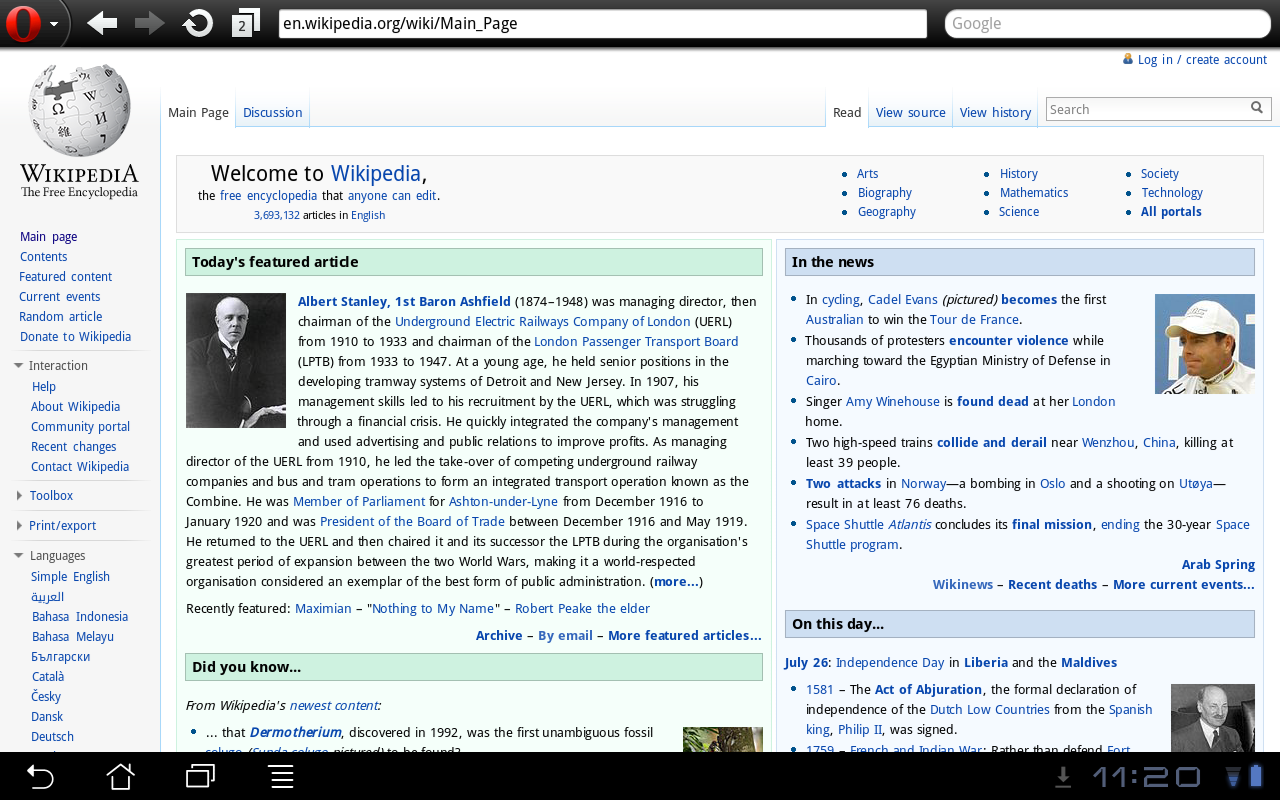 Opera Mobile 11.10 on Asus Eee Pad Transformer (Android 3.1 Honeycomb)